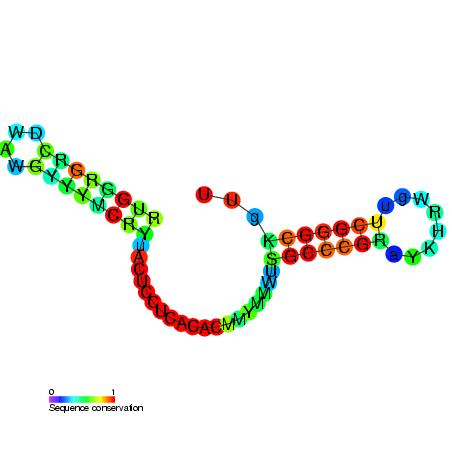 Secondary structure image for Yfr1 non coding RNA (RF01116). Nucleotide colouring indicates sequence conservation between the members of this family.